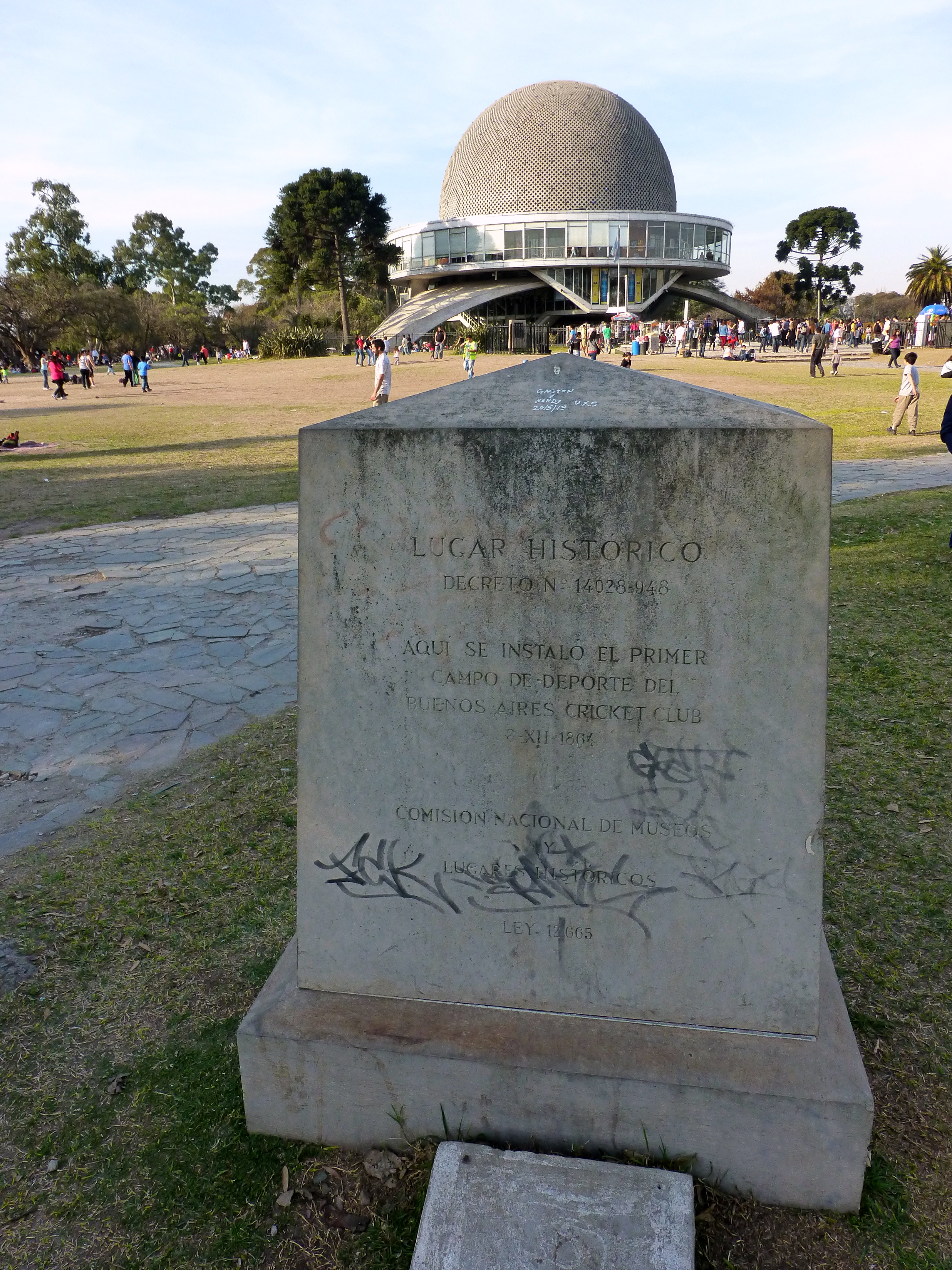 Commemorative plaque on the historic site where the Buenos Aires Cricket Club field was. The first football match in Argentina was played there. On the background, the Planetario Galileo Galilei.